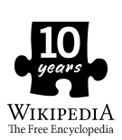 Logo used on en-wiki for the tenth anniversary